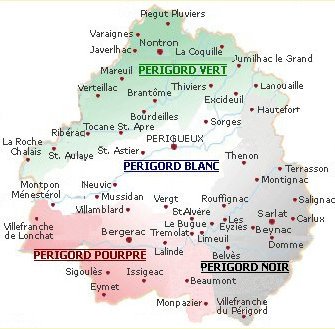 The 4 Périgord